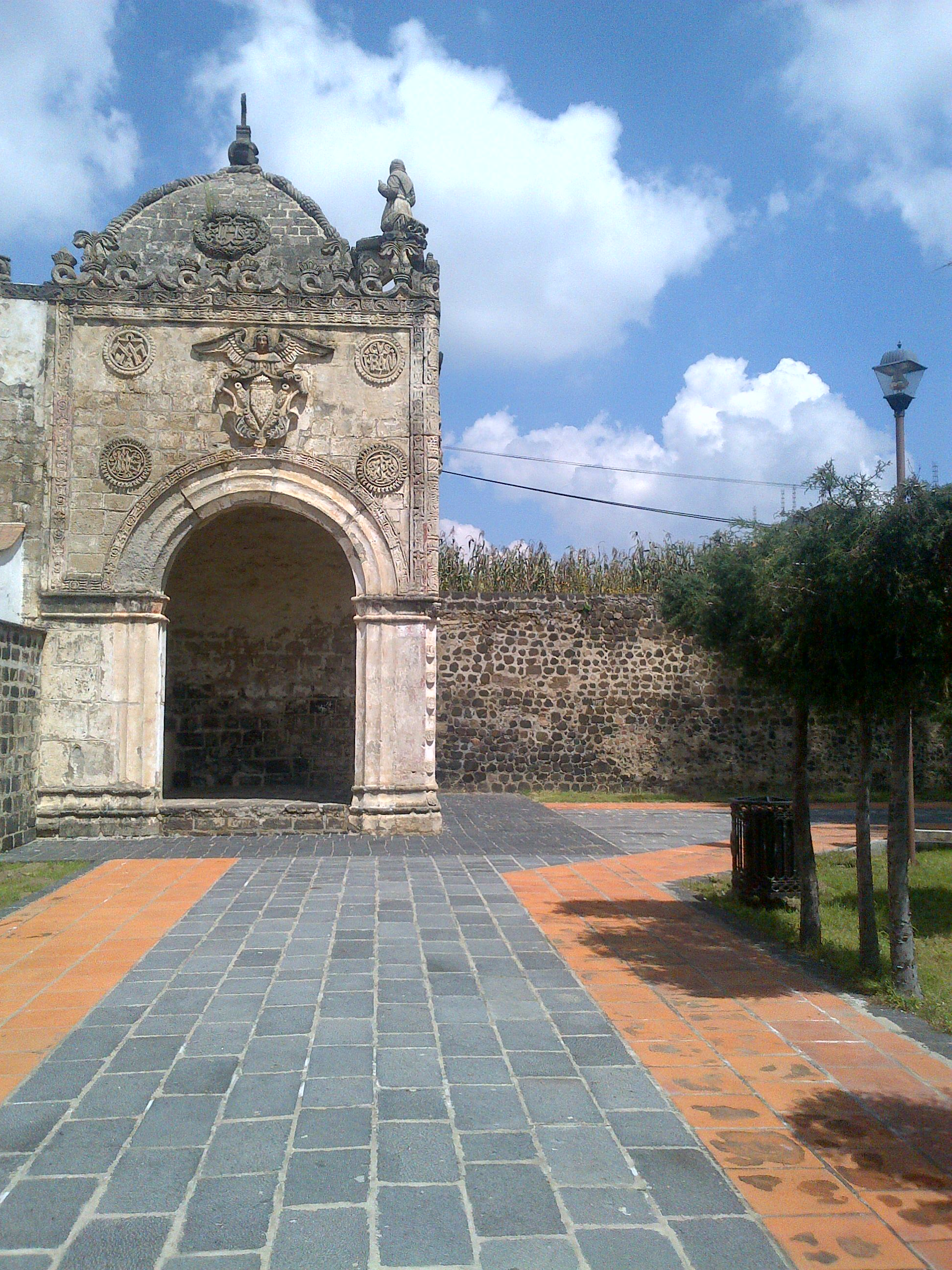 Perspectiva de la capilla Posa dedicada a San Francisco en la esquina Norte del Ex Convento de San Andres Calpan